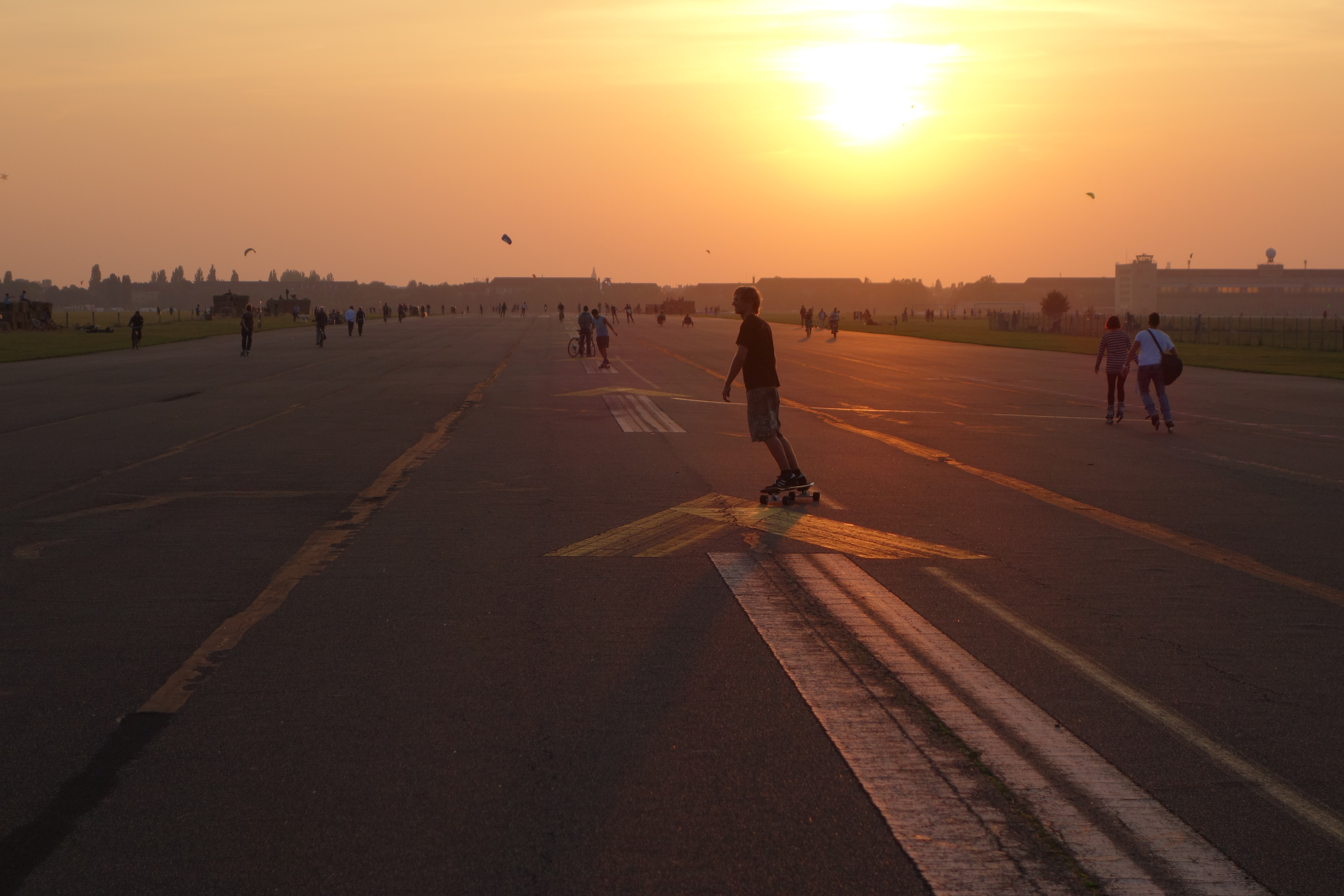 Former Airfield in Tempelhof, Berlin, Germany